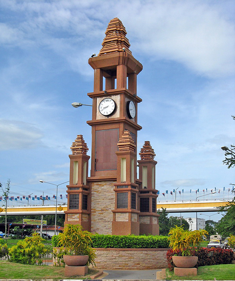 Sikhio Clock Tower, Sikhio district, Nakhon Ratchasima province, Thailand